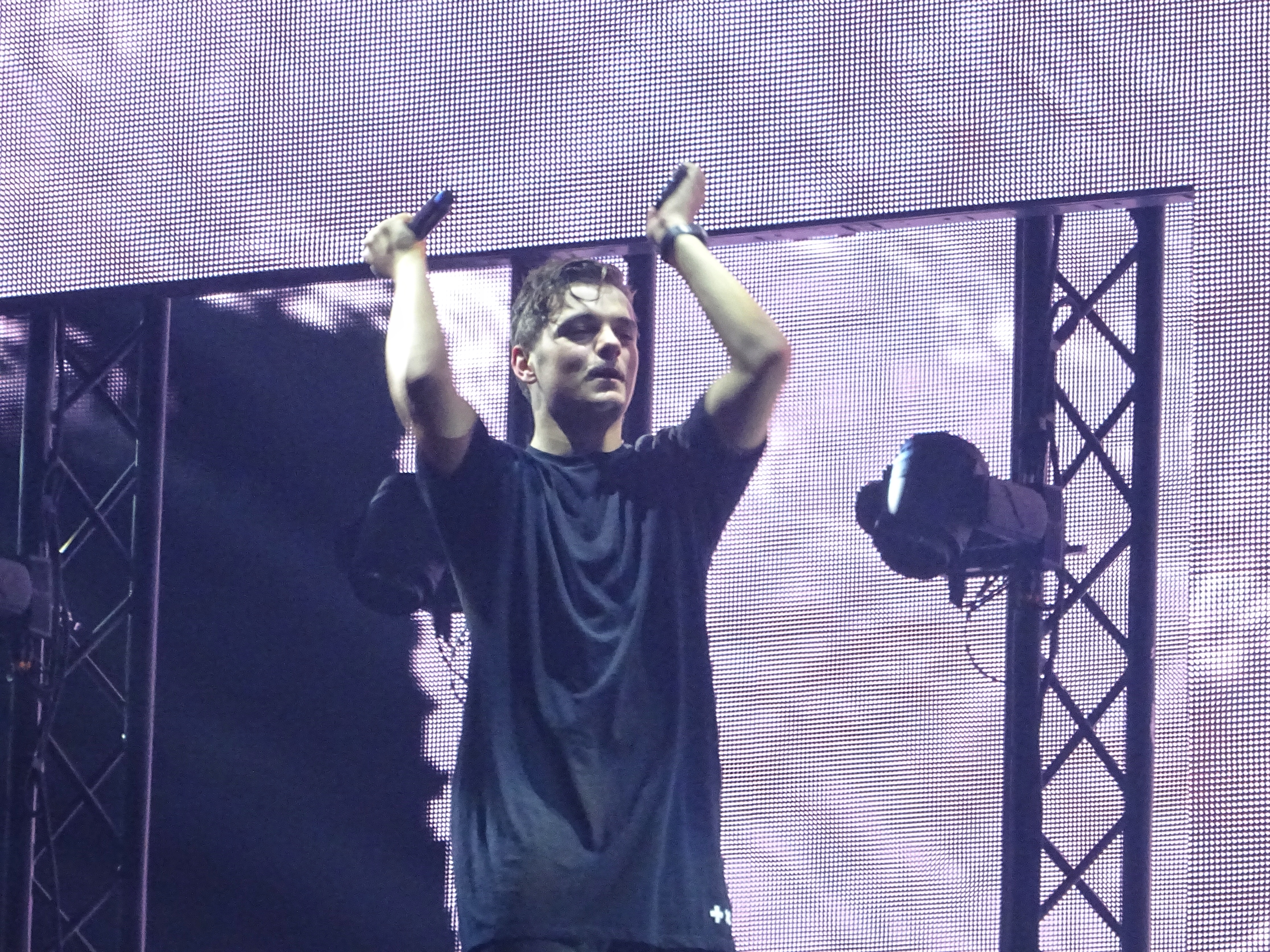 Martin Garrix playing live at BigCityBeats World Club Dome Winter Edition 2017.